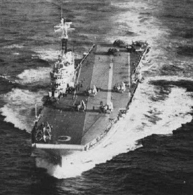 A photo from 1955 showing the British Royal Navy aircraft carrier HMS Centaur (R06) with the recently added 5.5° angled deck.